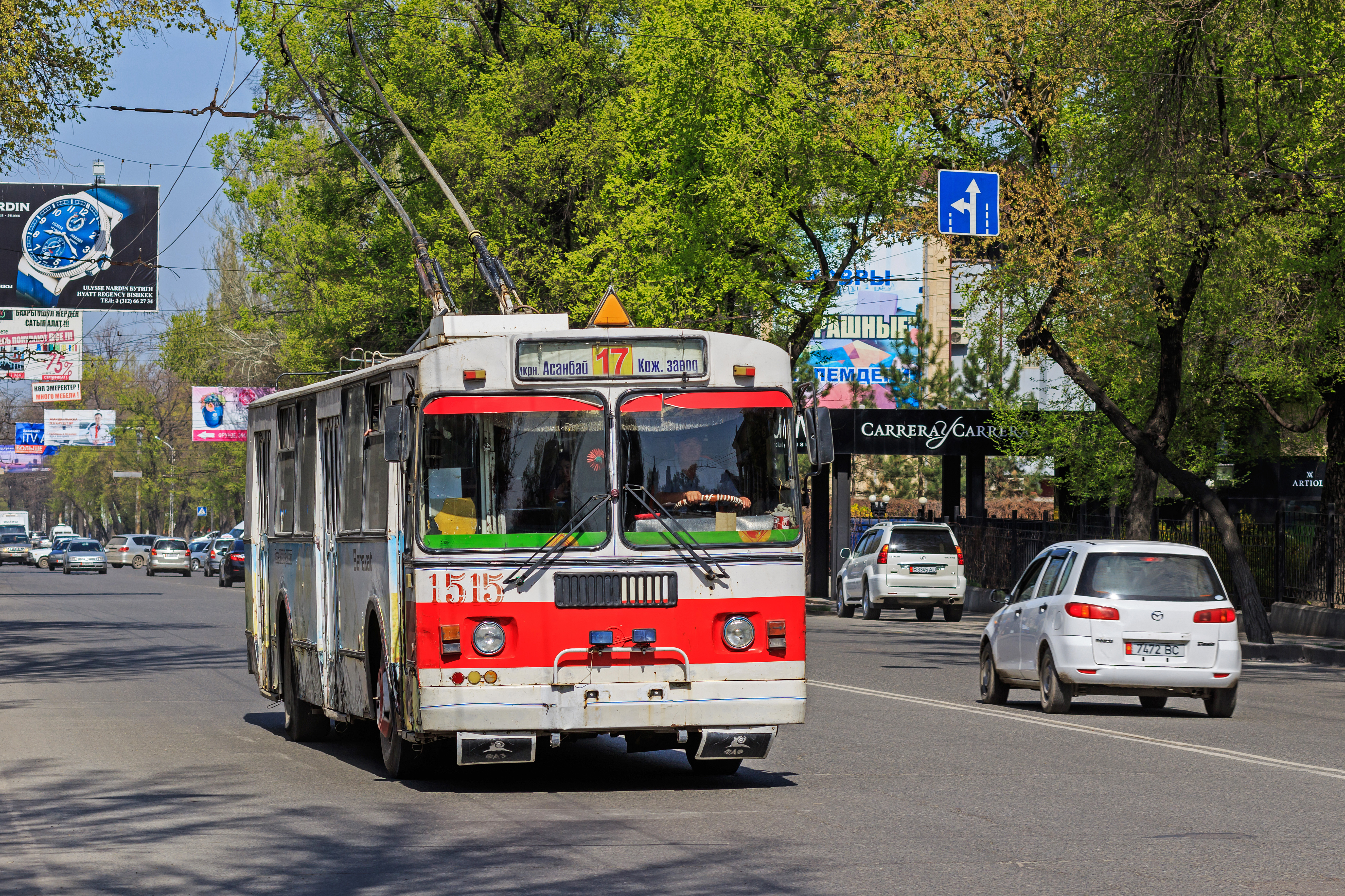 Trolleybus at Yusup Abdrahmanov Street in Bishkek, Kyrgyzstan